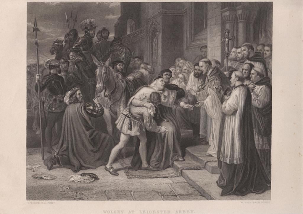 « Wolsey at Leicester Abbey » The Art-Journal. 1859.